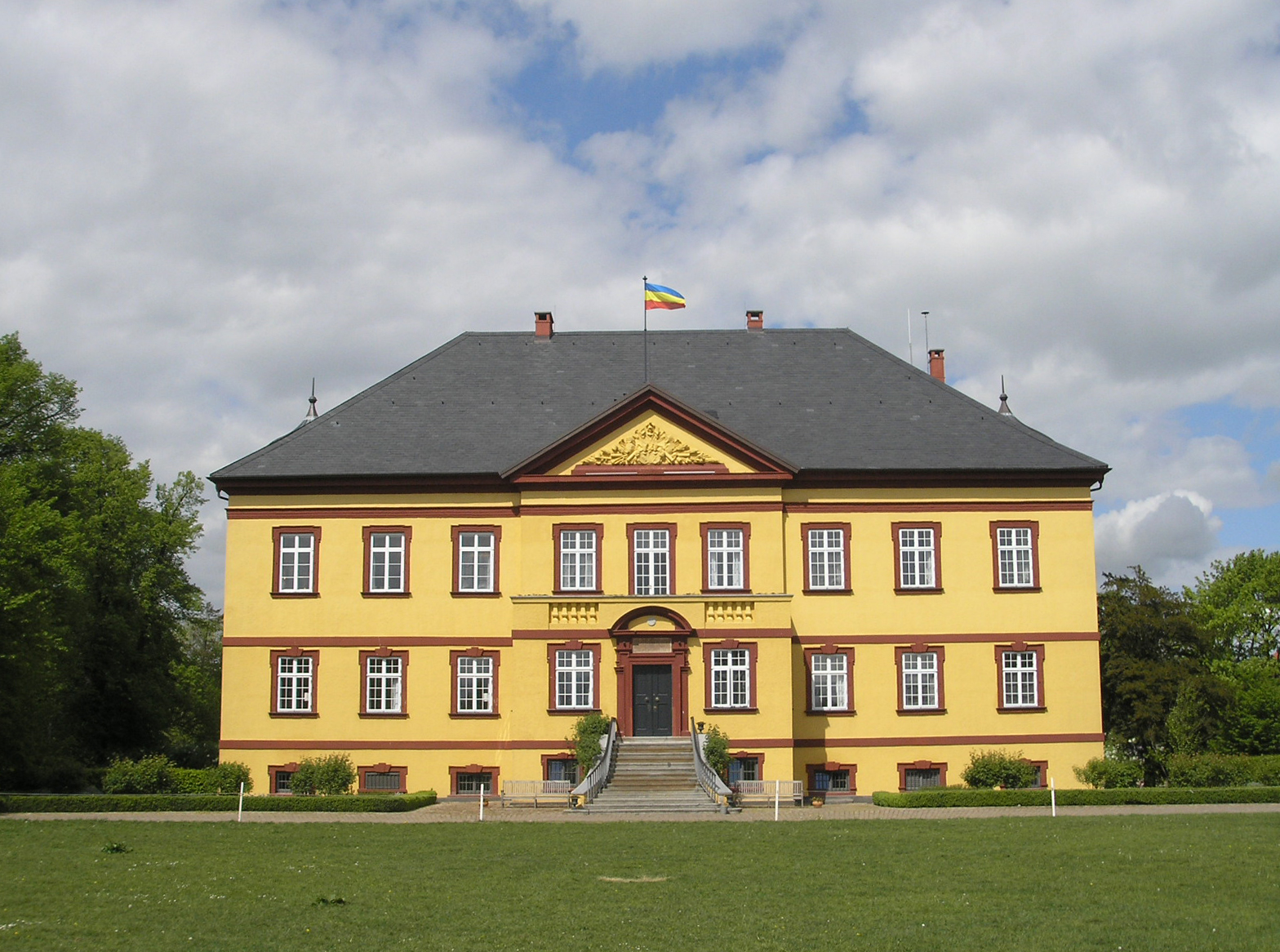 Image of Gut Hohen Luckow in Mecklenburg. The second upload is has the tilt corrected